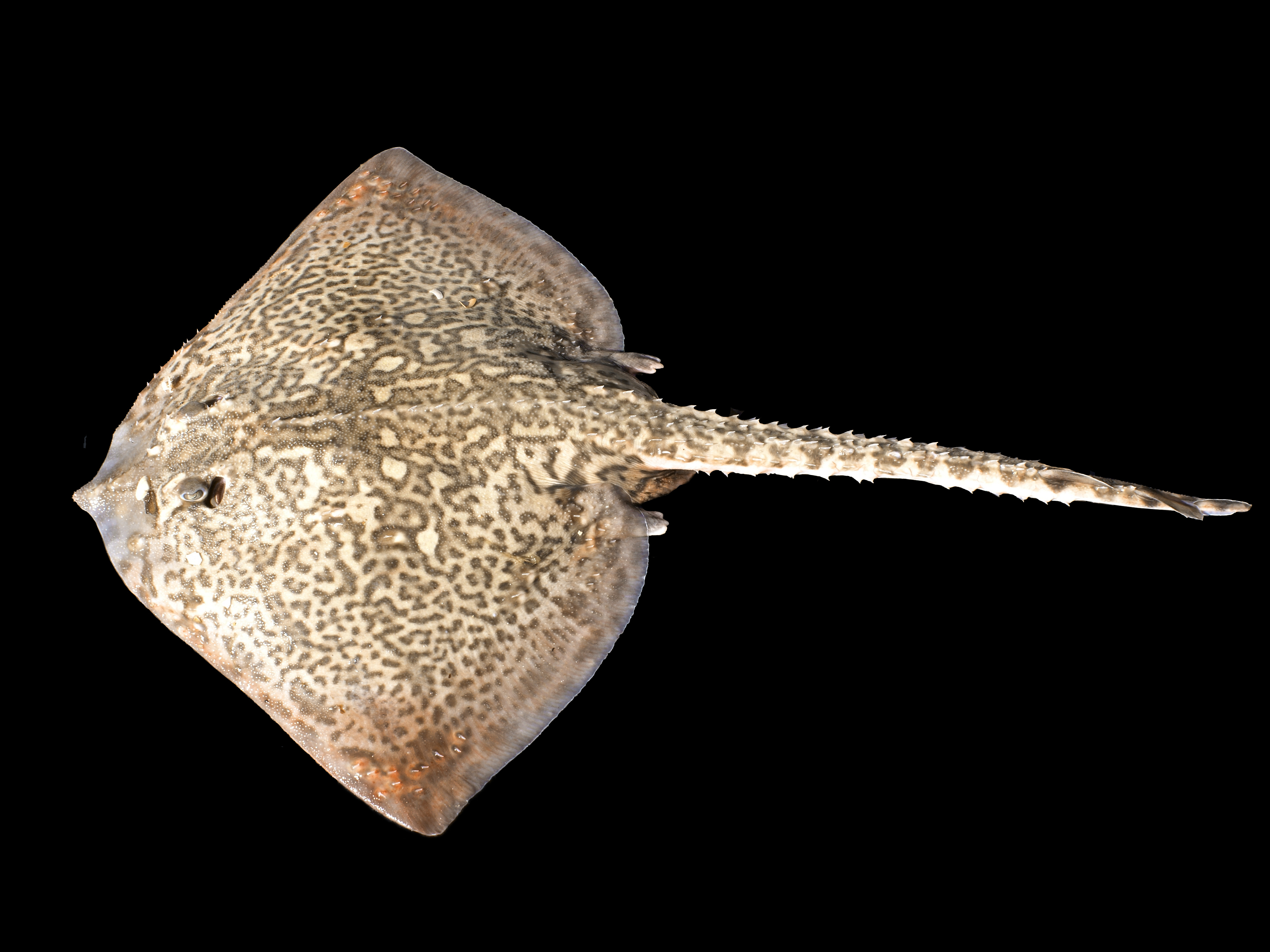 Thornback ray close to the northern edge of the Belgian part of the North Sea, Belgium. The co-ordinates are the centre of a 1.8 nm SW-NE fish track.